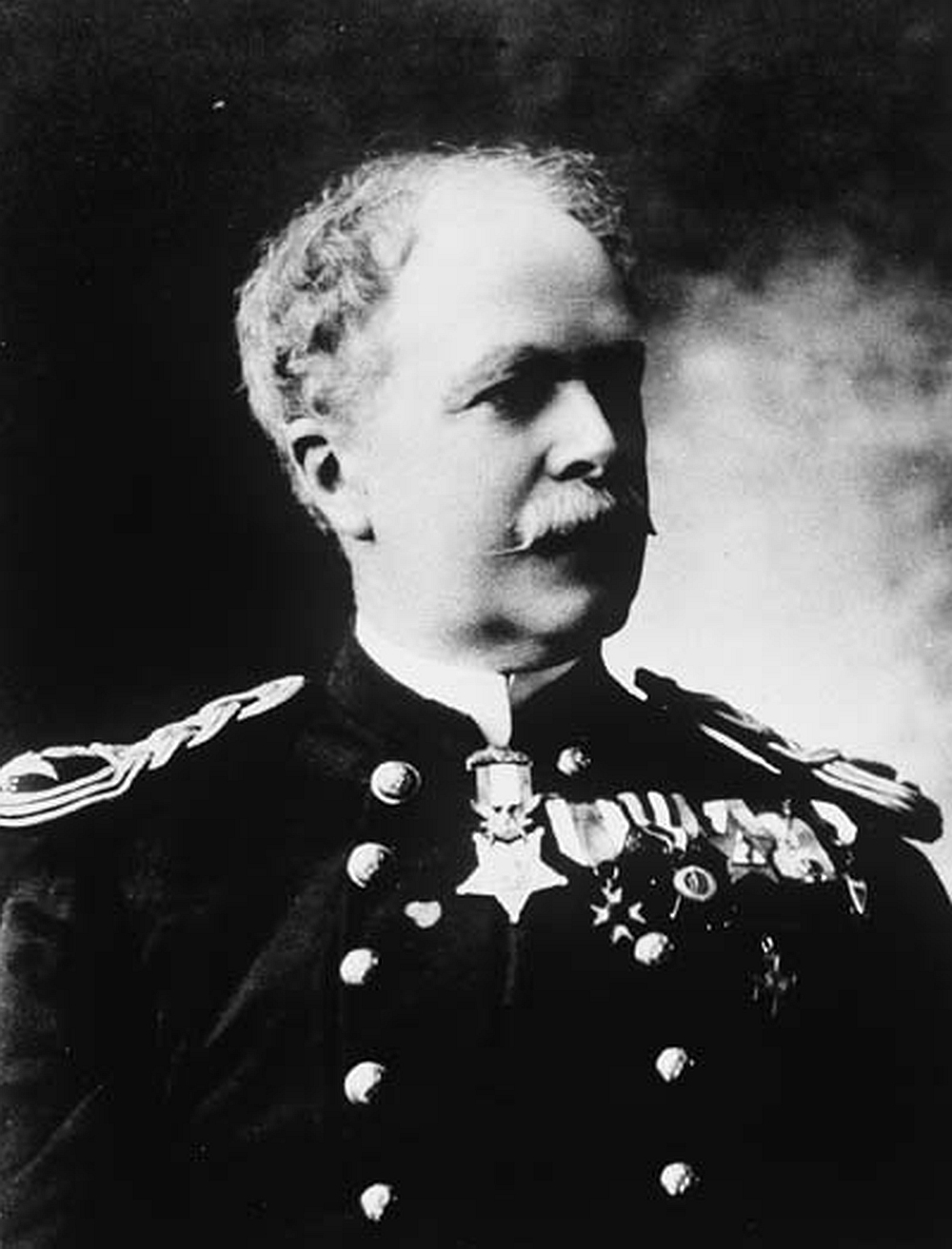 Bernard J. D. Irwin, Assistant Surgeon, United States Army, awarded the Medal of Honor for actions in the Indian Wars